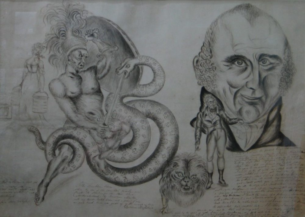 Drawing, Bethlem Museum of the Mind